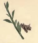 Stainton’s Natural History of the Tineina (1855–1873): Coleophora trifariella sprig of broom with attached larva-case